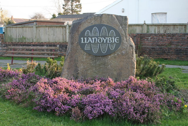 Llandybie Millennium Stone This stone from the local quarry was erected on Llandybie square in 2000.The calligraphy is by the world famous Ieuan Rees who lives locally.